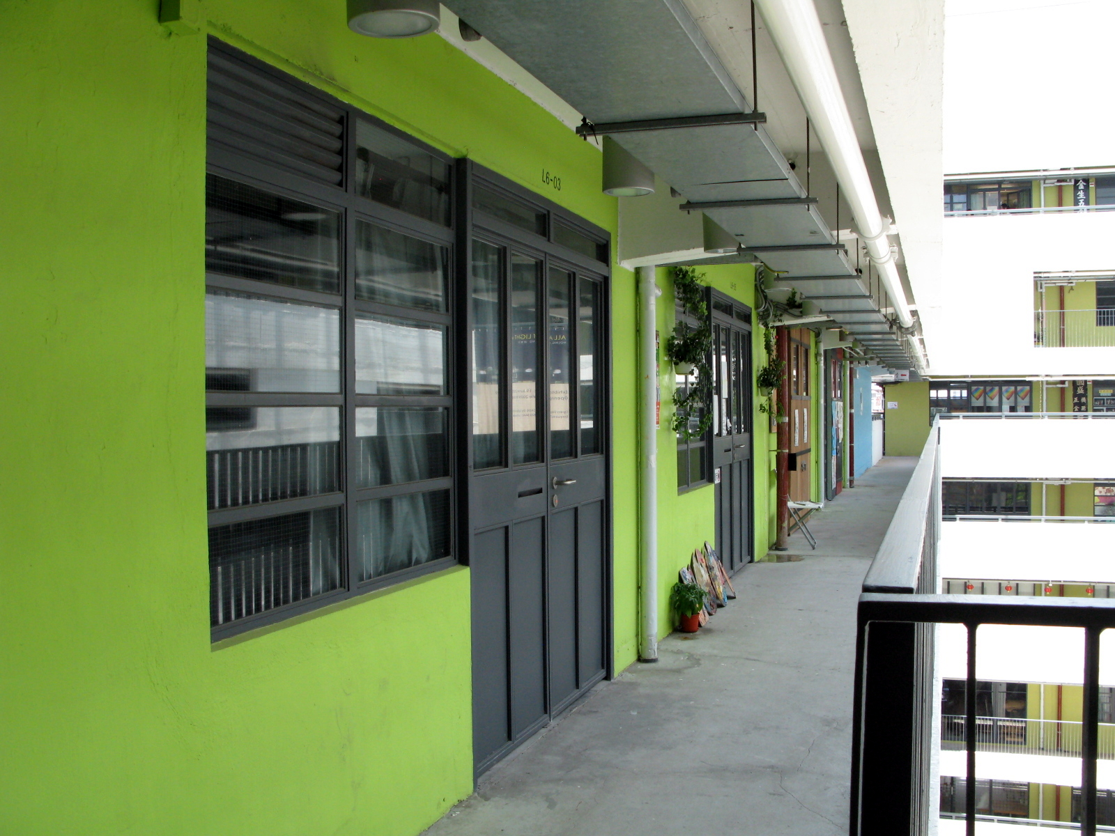 The Jockey Club Creative Arts Centre 賽馬會創意藝術中心